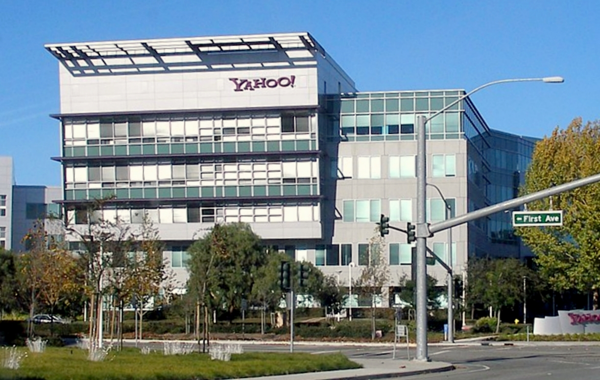 Headquarters of Yahoo! next to Mathilda Avenue in Sunnyvale, California.